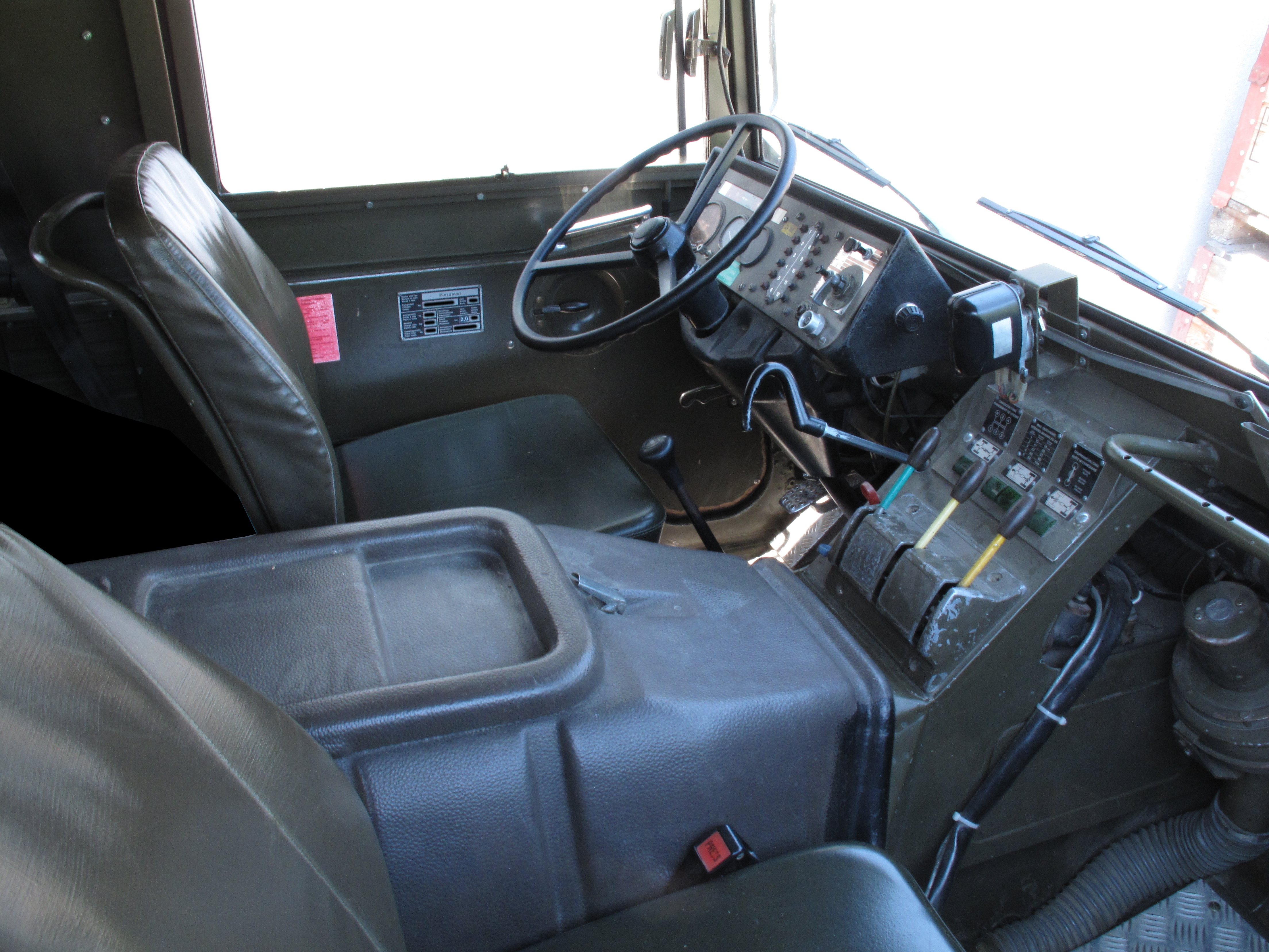 Cockpit of the Pinzgauer 710M (4x4 troop carrier version)